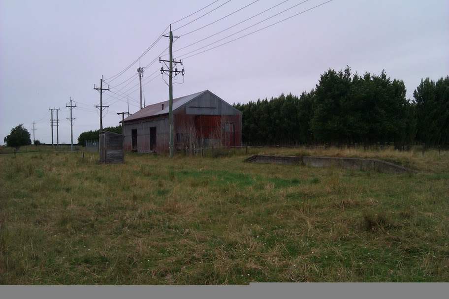 Lauriston station Goods shed and Loading bank.